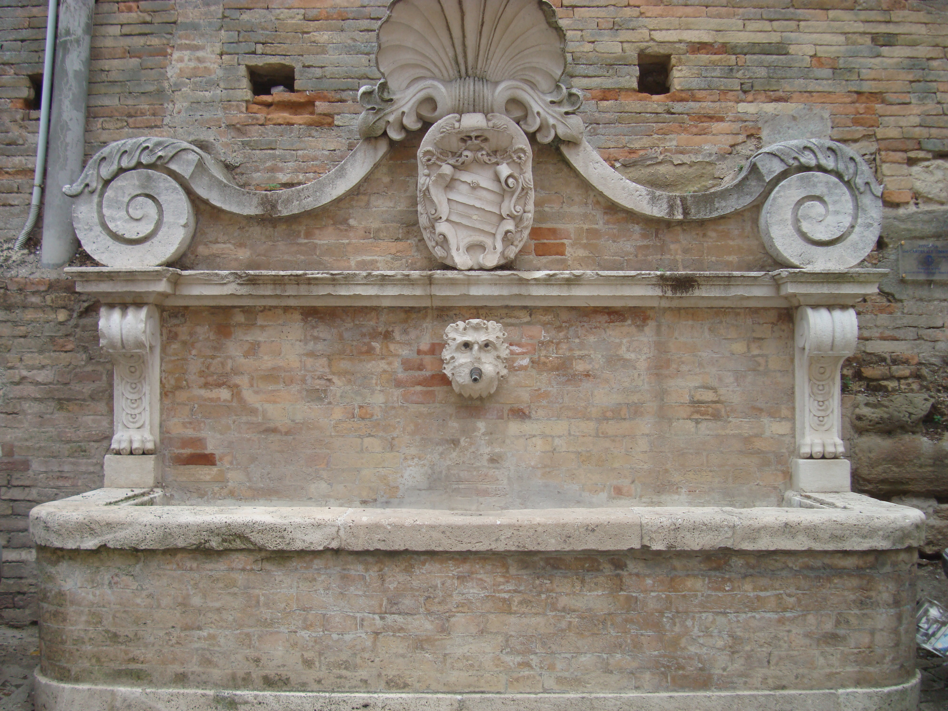 The fountain of Fermo city